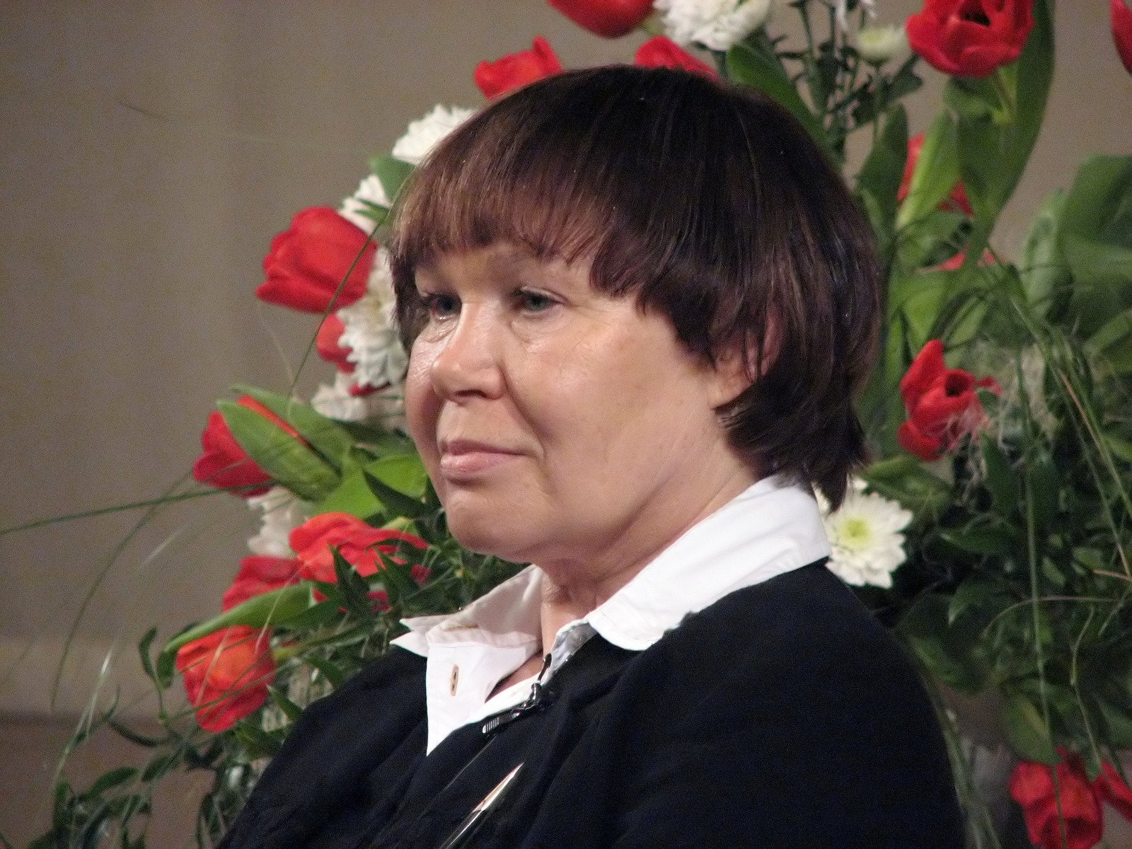 Viivi Luik in the Literary Evening with Herta Müller